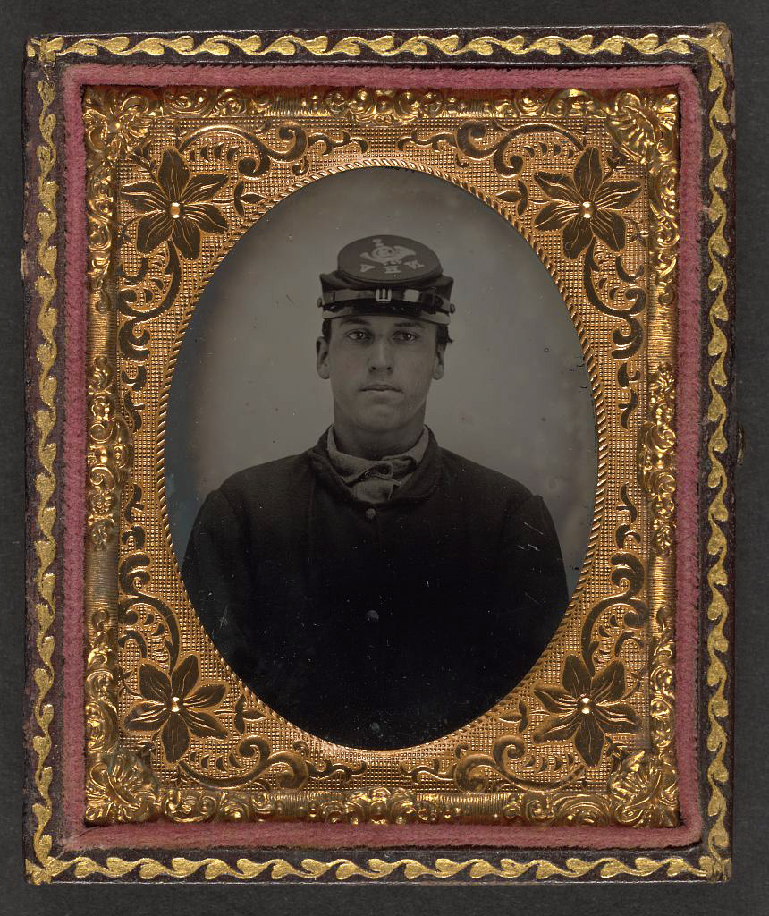 [Lorenzo Hawkins of Company I, 12th Regiment New Hampshire Volunteers] [between 1861 and 1865] 1 photograph : ninth-plate ambrotype, hand-colored ; 7.4 x 6.6 cm (case) Notes: Title devised by Library staff from information in collections file. Case: Leather with floral motif center and scroll exterior. Additional information in collections file. Gift; Tom Liljenquist; 2010; (DLC/PP-2010:105). Purchased from: The Union Drummer Boy, Gettysburg, Pennsylvania, 2003. Subjects: Hawkins, Lorenzo,--b. ca. 1844. United States.--Army--New Hampshire Infantry Regiment, 12th (1862-1865)--People. Soldiers--Union--1860-1870. Military uniforms--Union--1860-1870. United States--History--Civil War, 1861-1865--Military personnel--Union. Format: Portrait photographs--1860-1870. Ambrotypes--Hand-colored--1860-1870. Repository: Library of Congress, Prints and Photographs Division, Washington, D.C. 20540 USA, Part Of: Ambrotype/Tintype filing series (Library of Congress) (DLC) 2010650518 Liljenquist Family collection (Library of Congress) (DLC) 2010650519 More information about this collection is available at Persistent URL: Call Number: AMB/TIN no. 2120